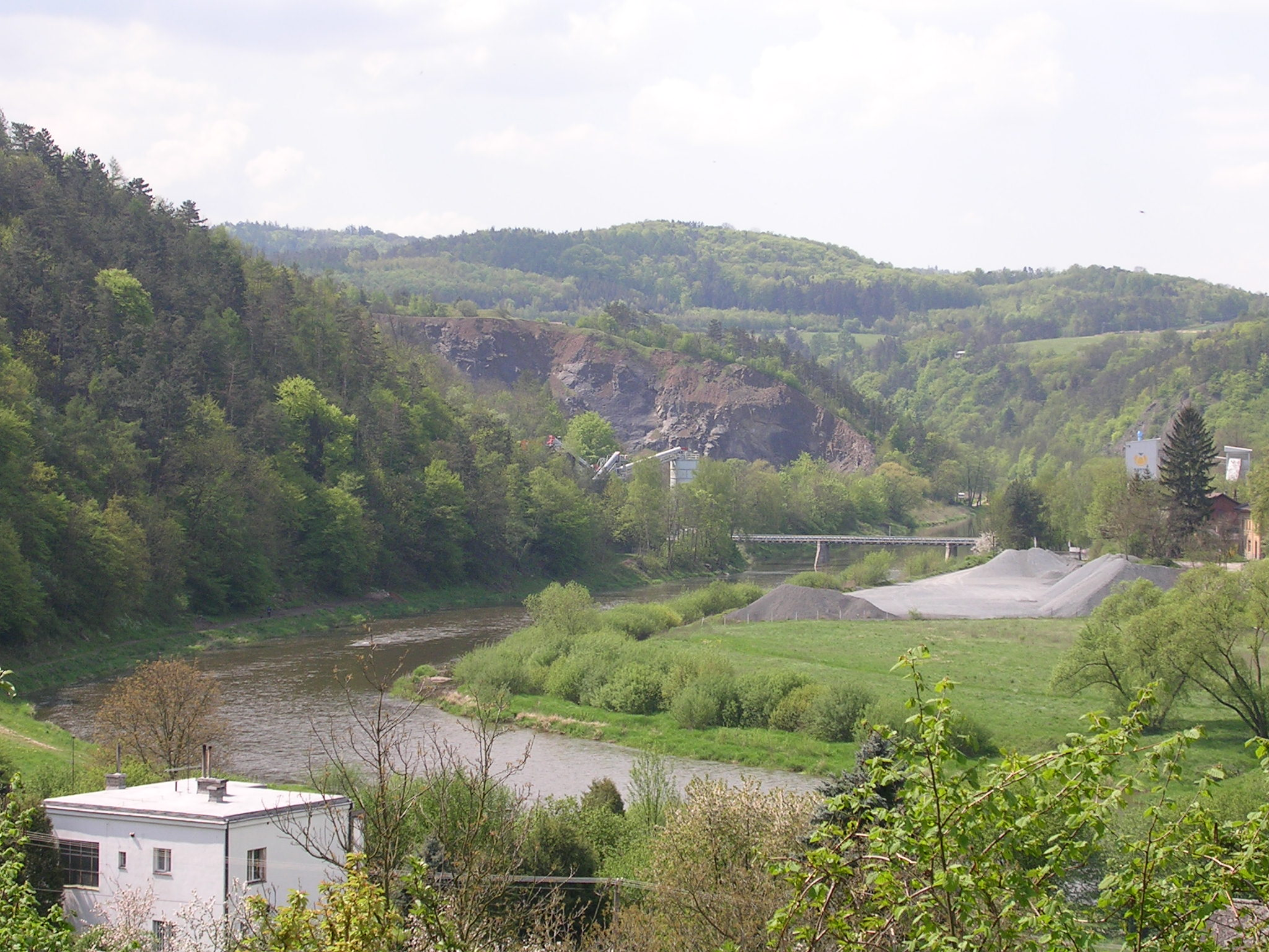 Sýkořice and Zbečno, the Czech Republic.